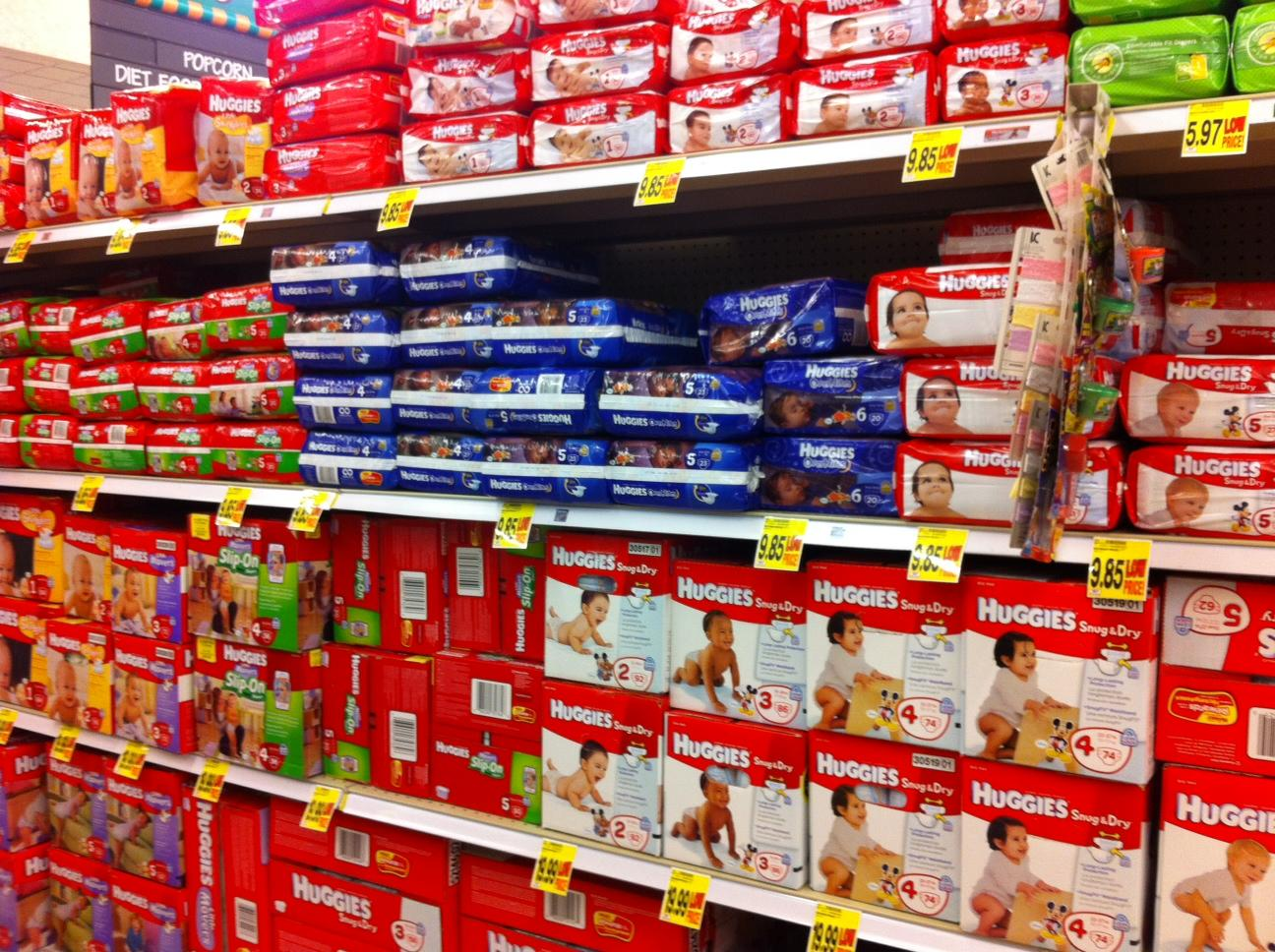 Disposable Huggies diapers at Kroger